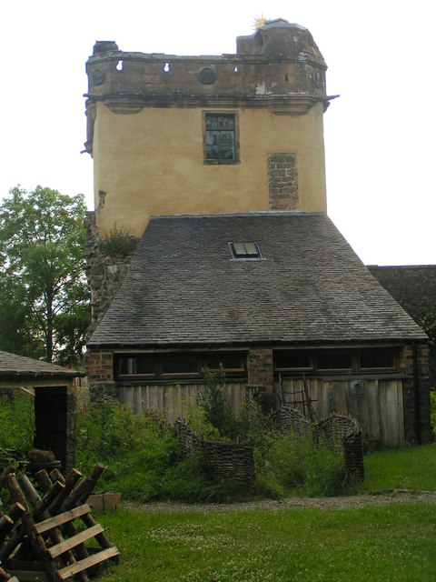 Monimail Tower Site of the Monimail Tower Project, a small environmental organisation which carries out gardening and woodland work. managed by resident volunteers who live on site in a Walter Segal self build house and in rooms within the Tower itself.